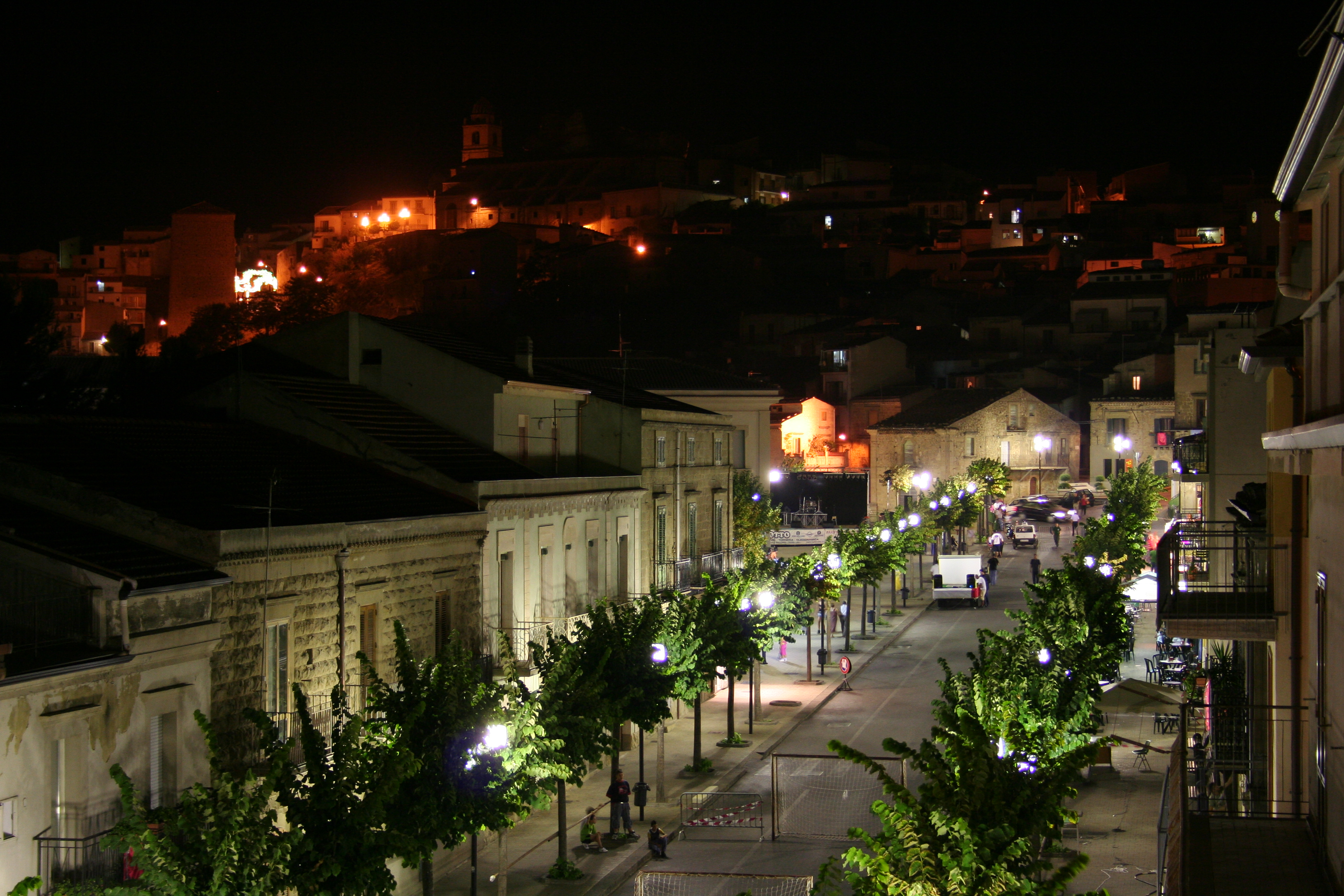 Corso Roma in Cerami (province of Enna, Sicily, Italy)